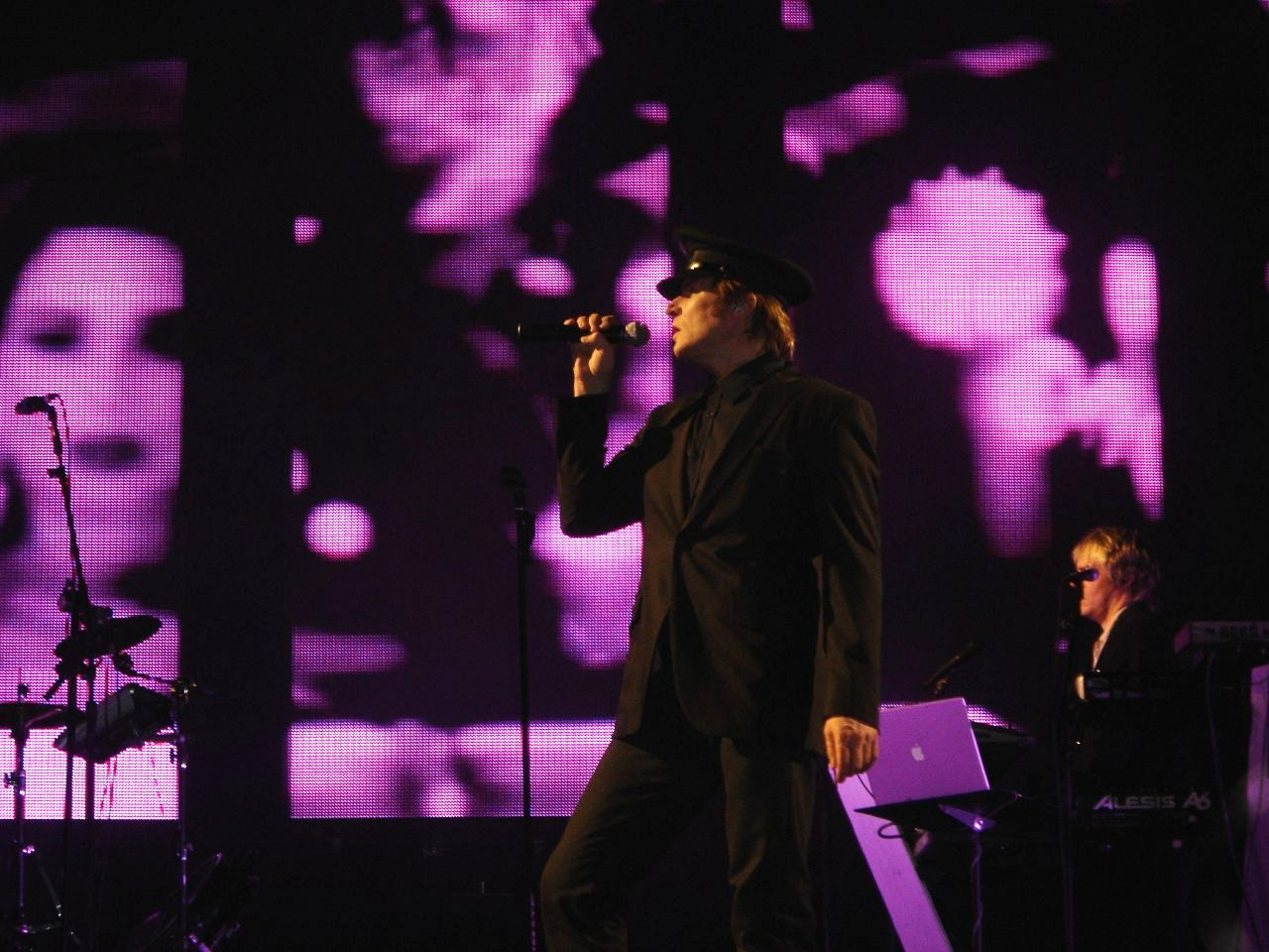 Duran Duran live in Toronto.